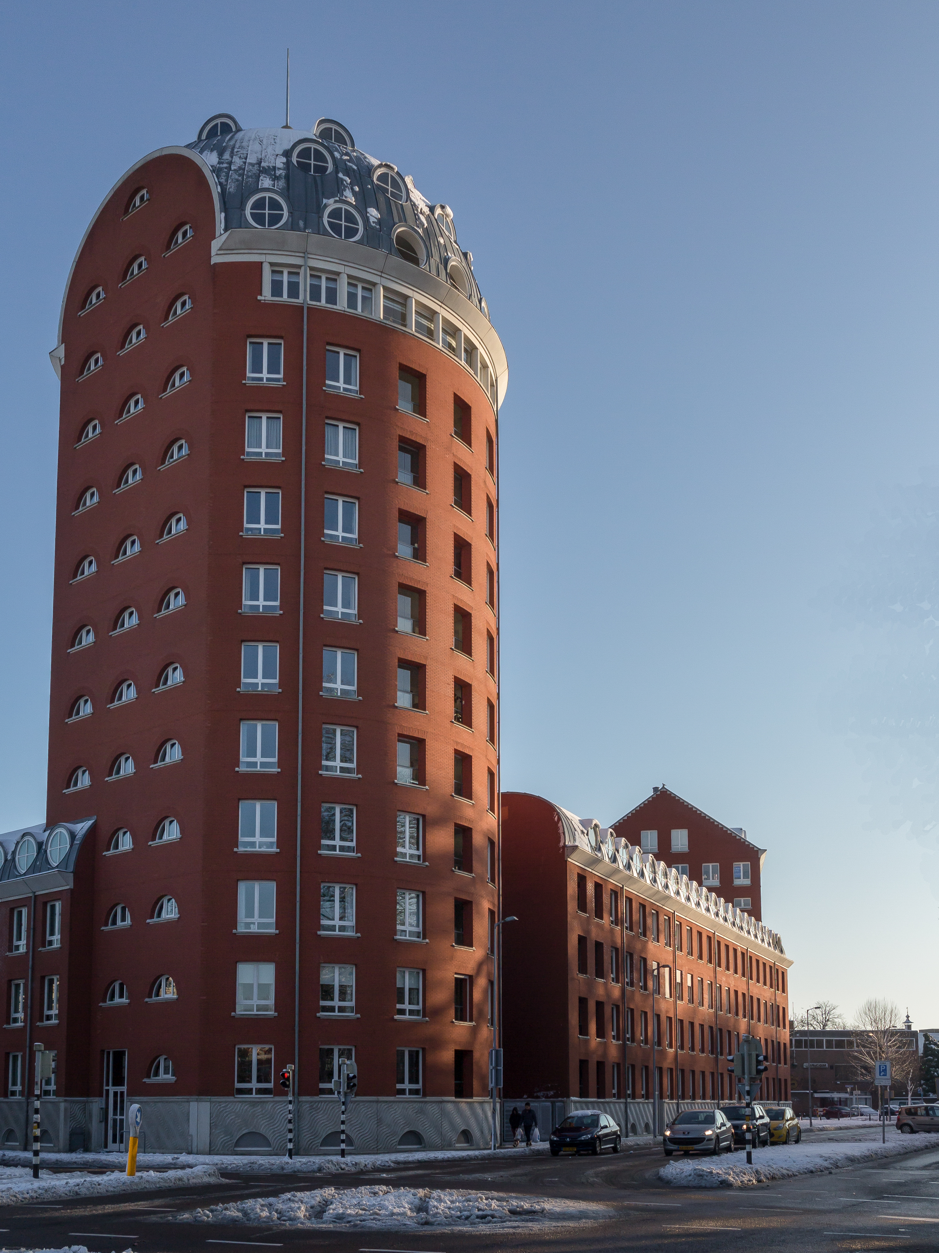 Breda, living block de Poort van Breda